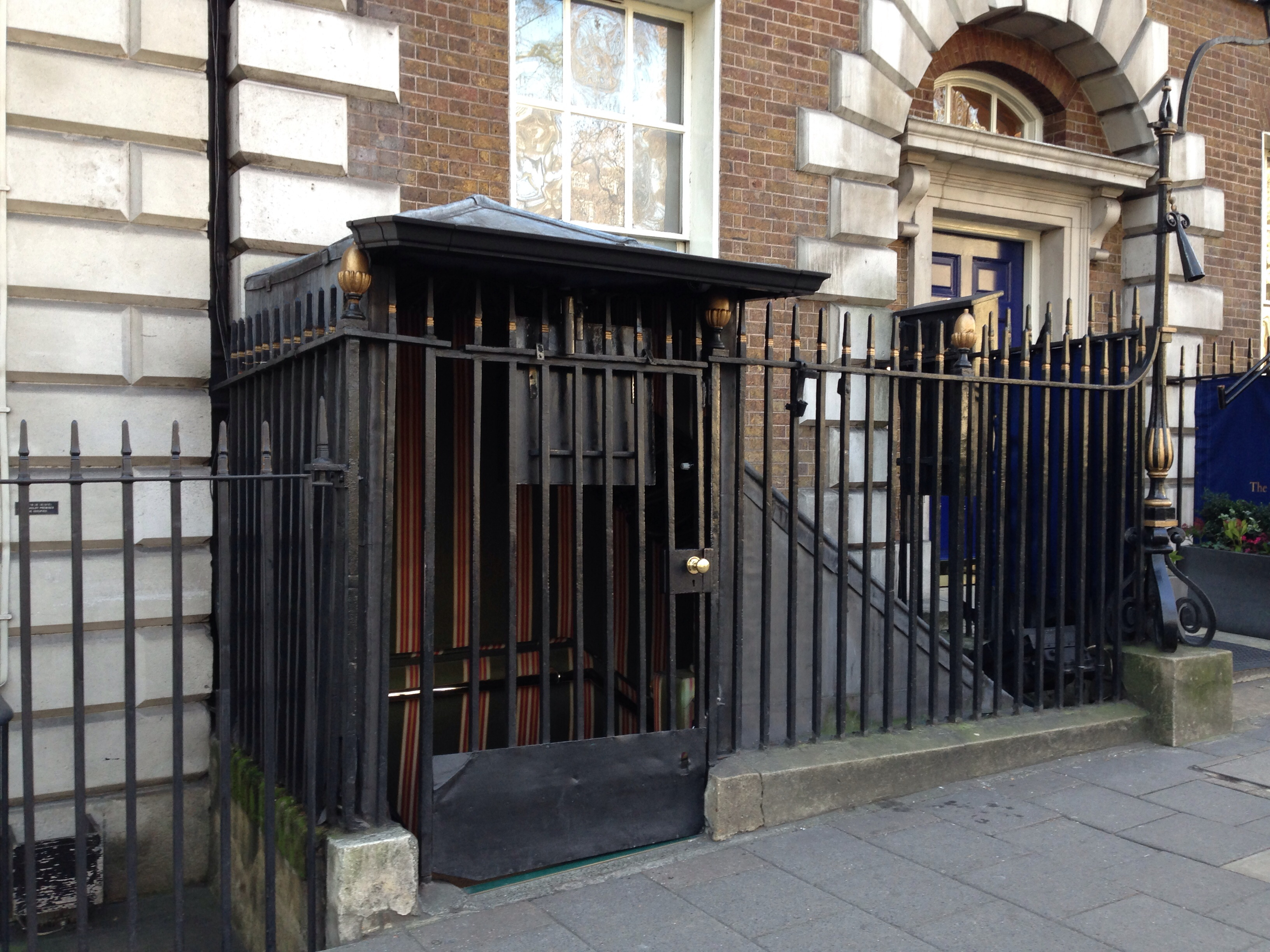 Entrance to Annabel's at 44 Berkeley Square.